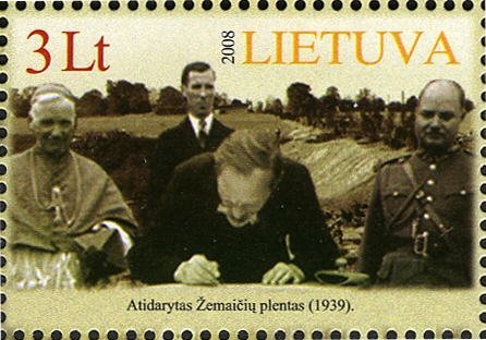 Stamps of Lithuania, 2008